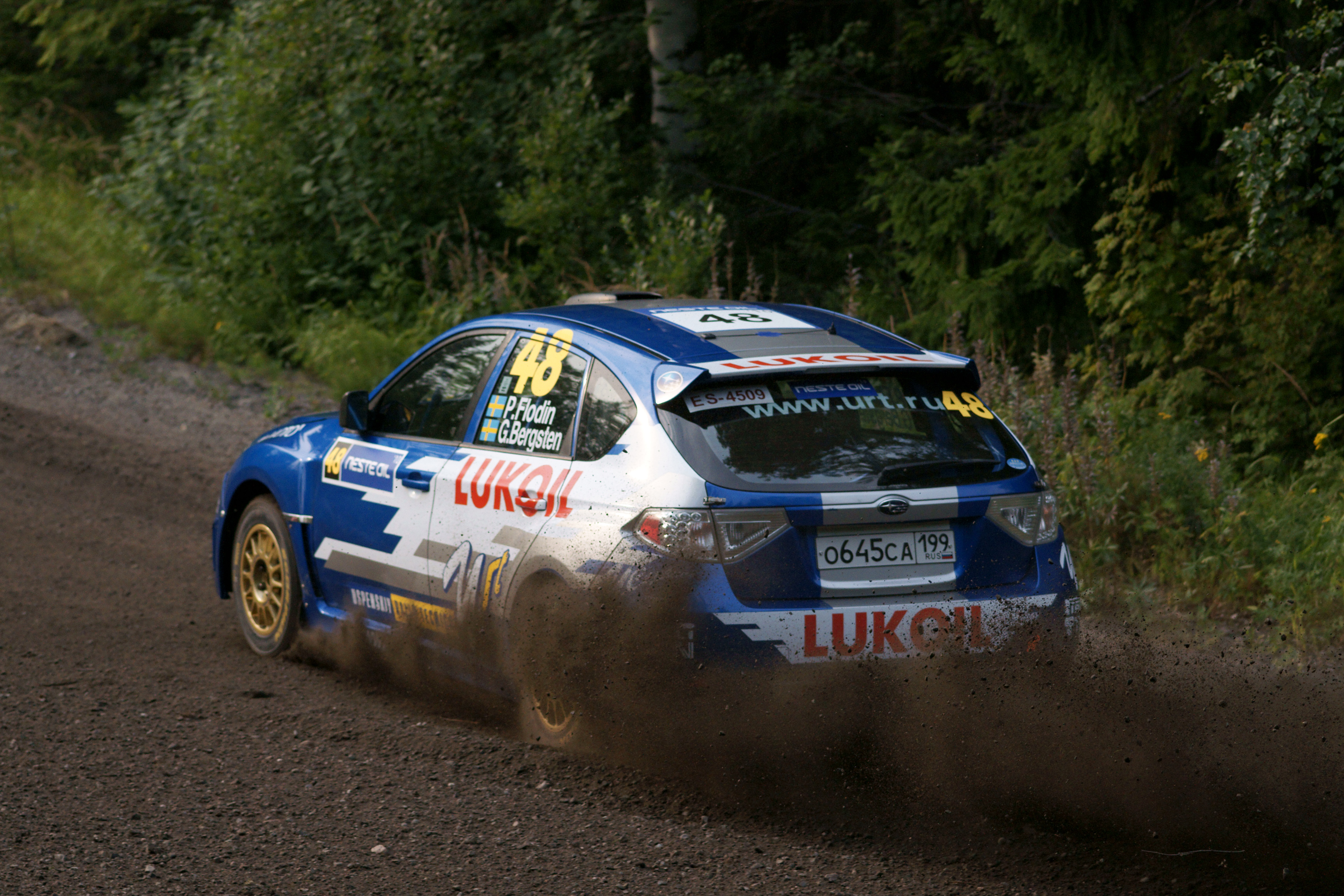 Patrik Flodin driving at Laajavuori special stage, Rally Finland 2010.